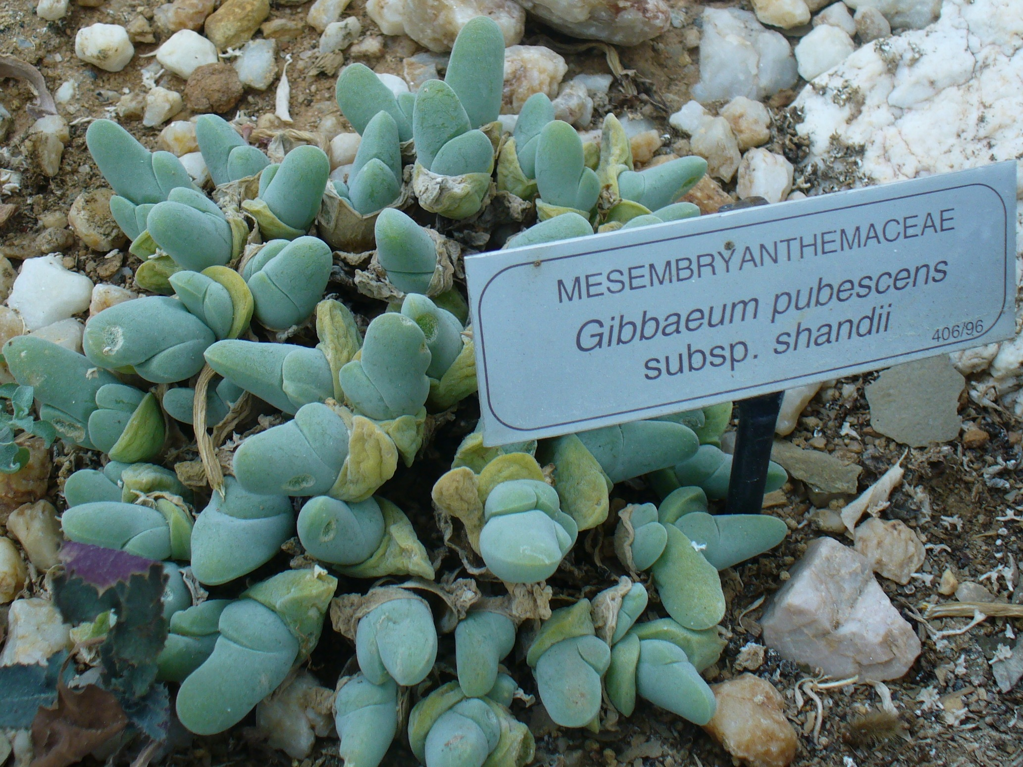 Gibbaeum pubescens subsp. shandii